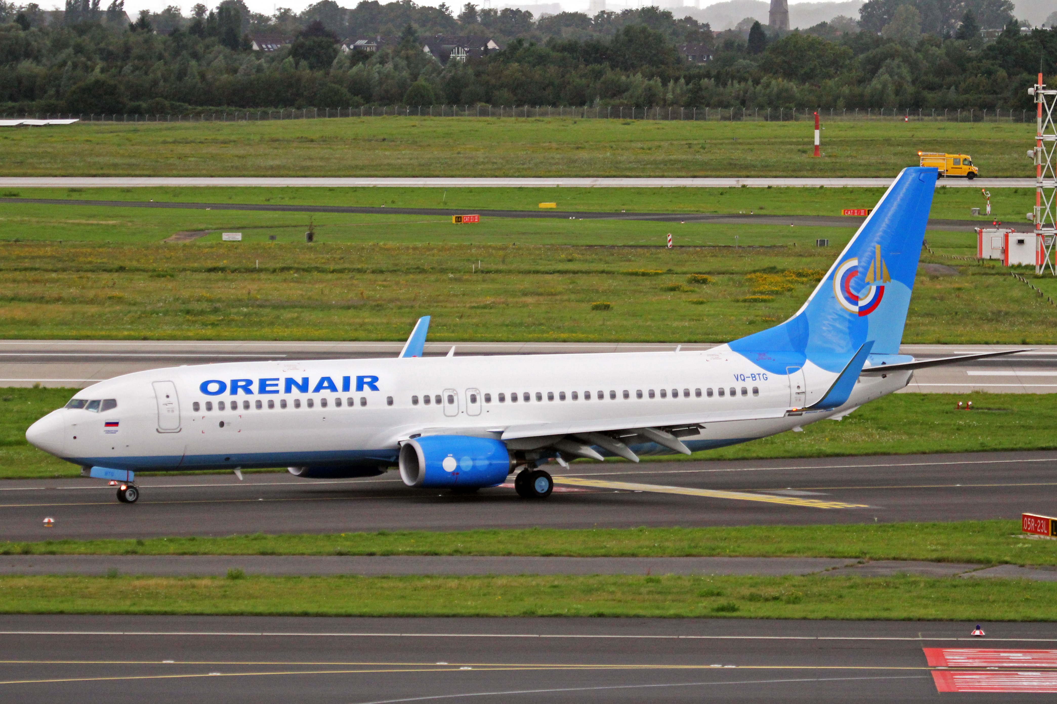 VQ-BTG B737-8FZW Orenair DUS 18AUG14